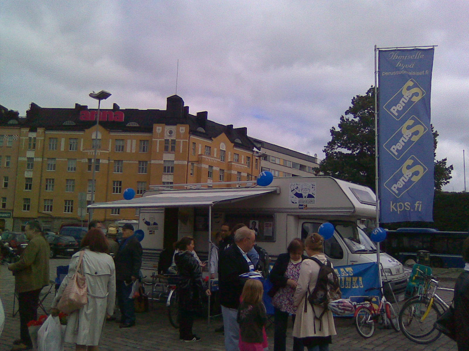 Perussuomalaiset (The Finns Party) party stall at Hakaniemi square.